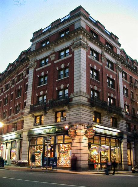 Harvard Book Store in Cambridge, Massachusetts